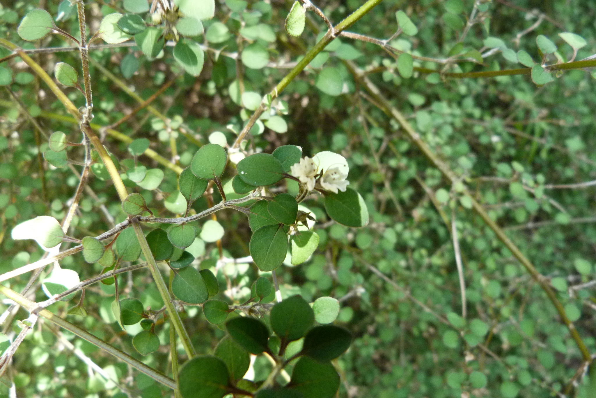 Teucridium parvifolium, Rakaia, Christchurch, New Zealand